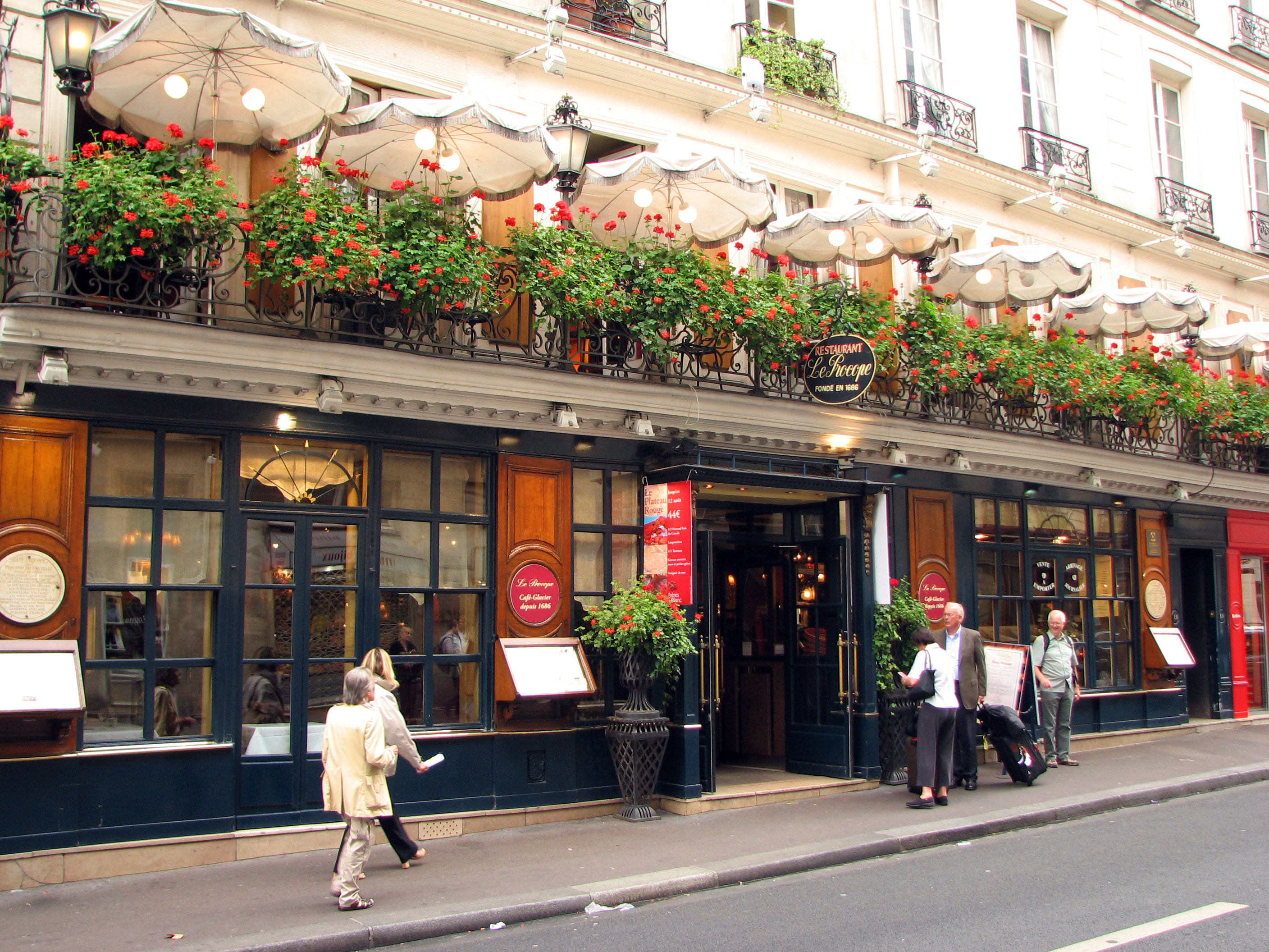 Le Procope /Cafe Procope